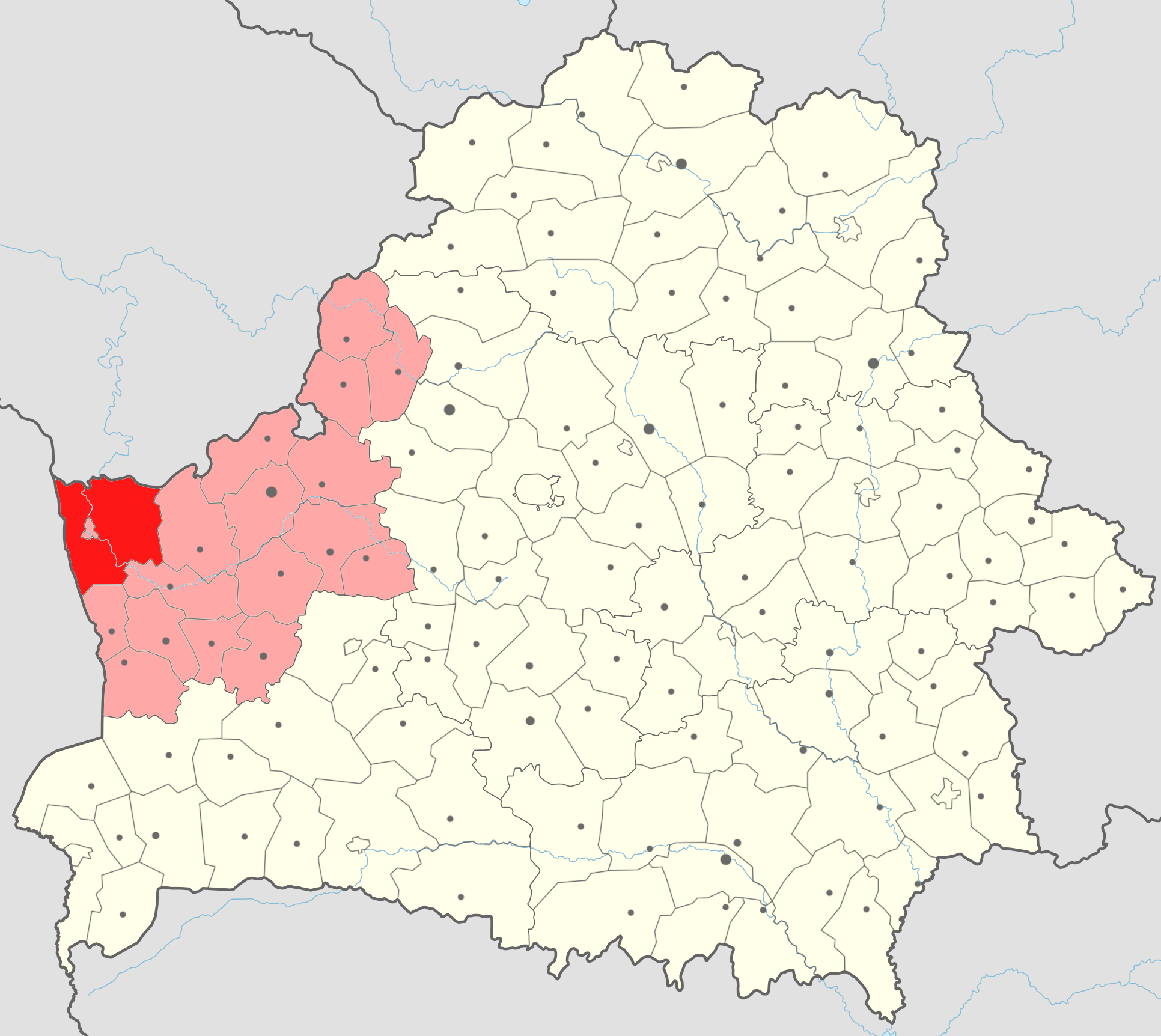 Map of Hrodzienski rayon (in red) with Hrodna voblast' (in light red) on the map of Belarus.